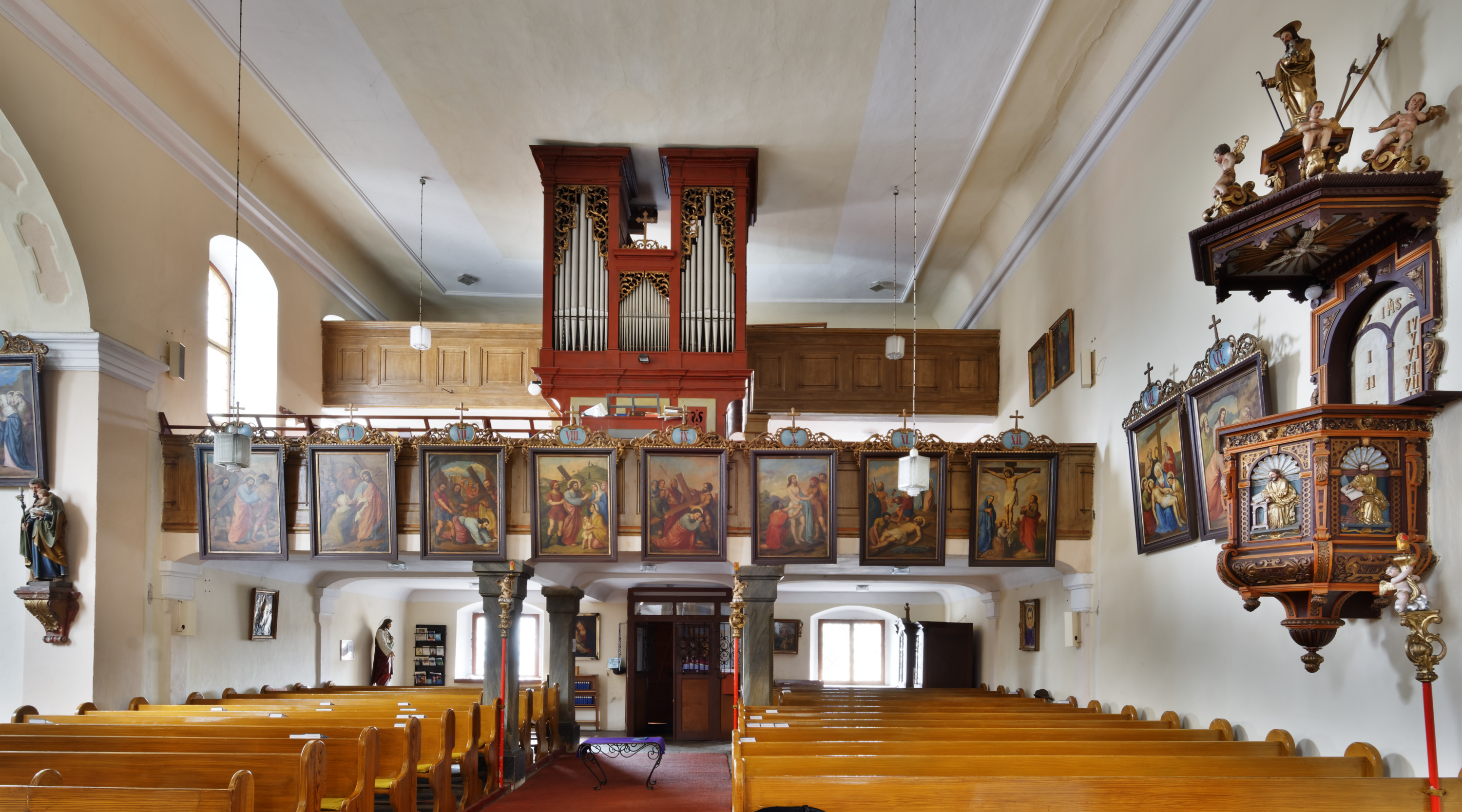 Church of St. Catherine, Volary, Prachatice disctrict